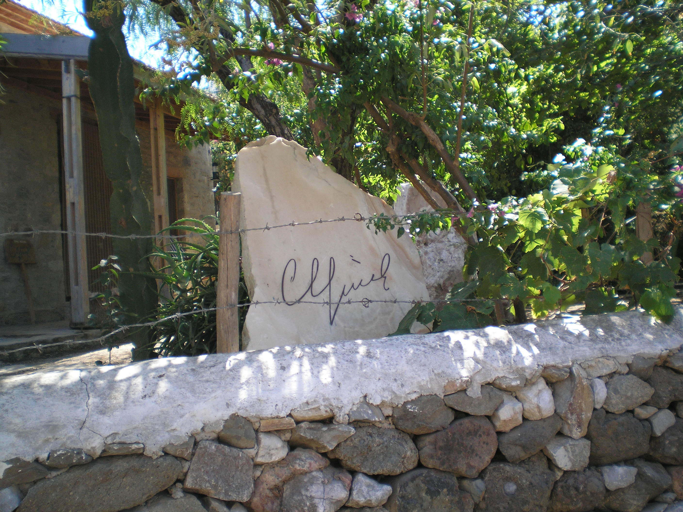 Can Yucel's signature in his house's garden, Datça.